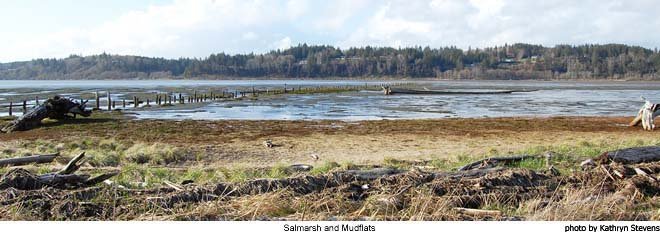 Salt-marshes and mud-flats are exposed during a low-tide in Grays Harbor NWR, Washington. Credit: Kathryn Stevens/USFWS